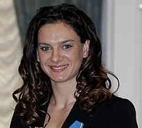 Elena Isinbaeva in Kremlin